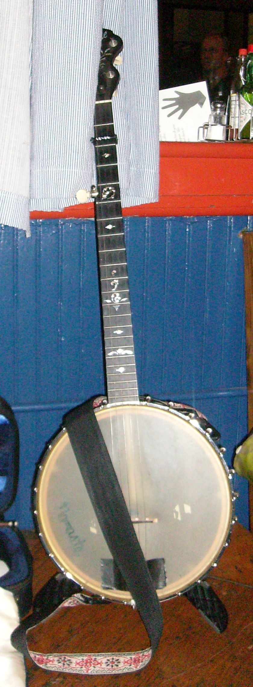 Adrienne Young's banjo at Little Grill Collective June 27, 2008 in Harrisonburg, Virginia.